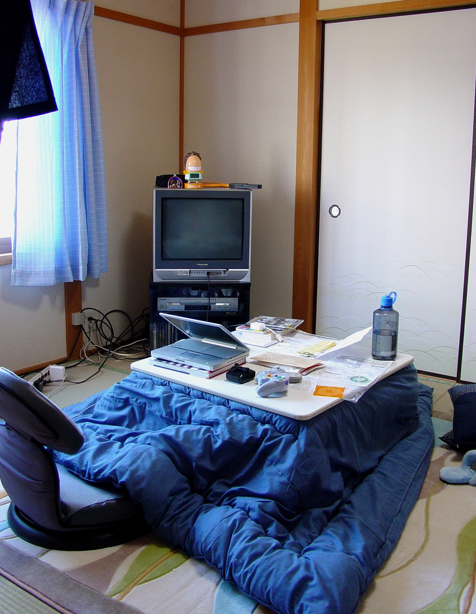 Kotatsu or 炬燵 in Japan. "livingroom 2/2".